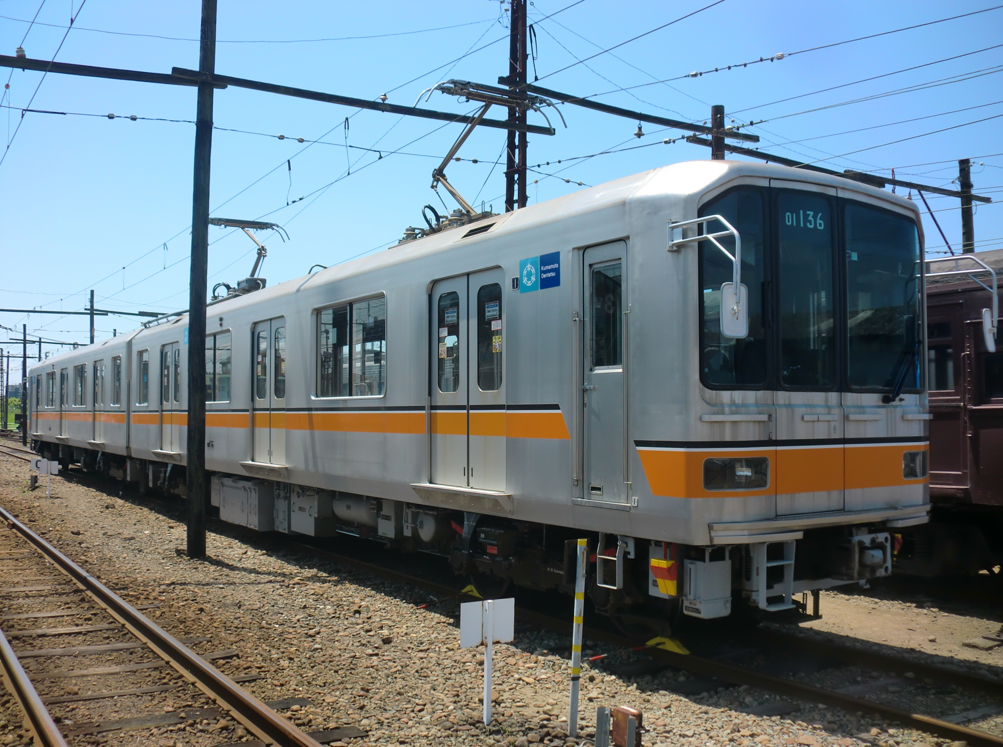 Kumamoto Electric Railway 01 series 2-car EMU set 36